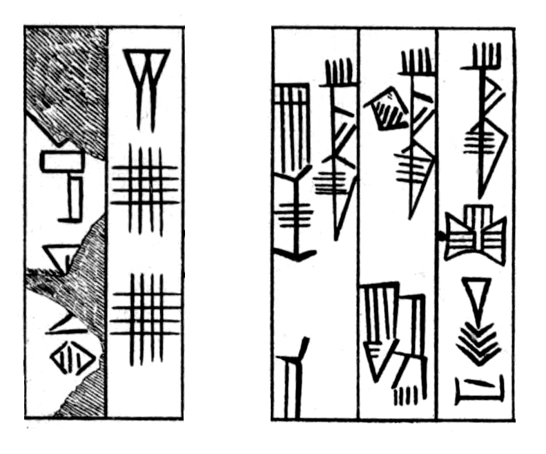 Lugalzagesi king of Uruk king of the Land son of Ukush This file has been extracted from another file: Nippur vase of Lugalzagesi.jpg